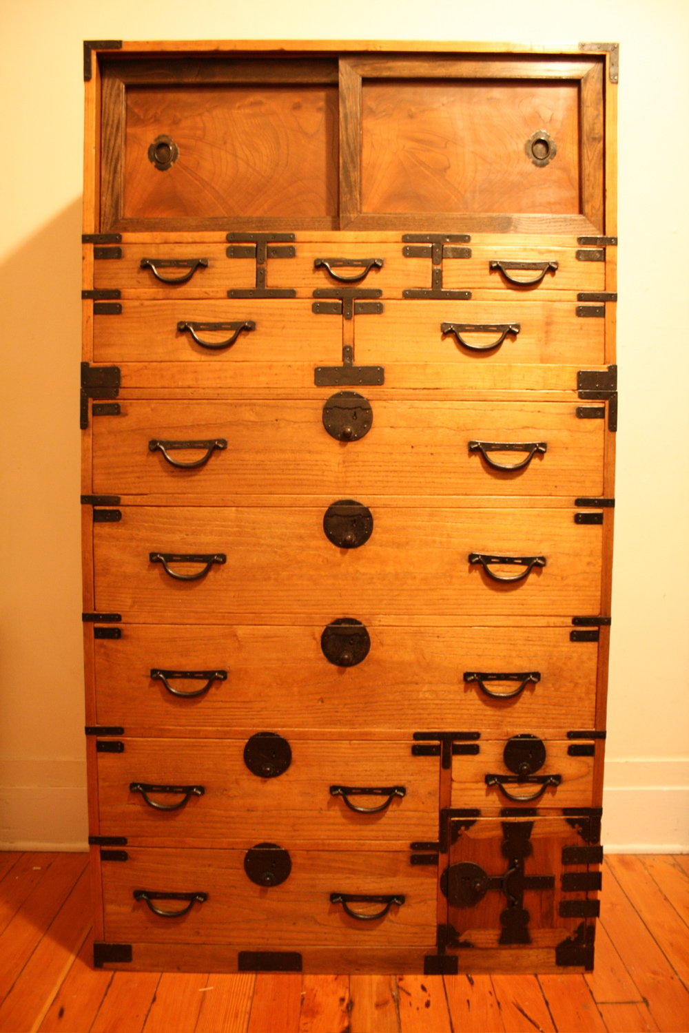 A picture I took of a Tansu.